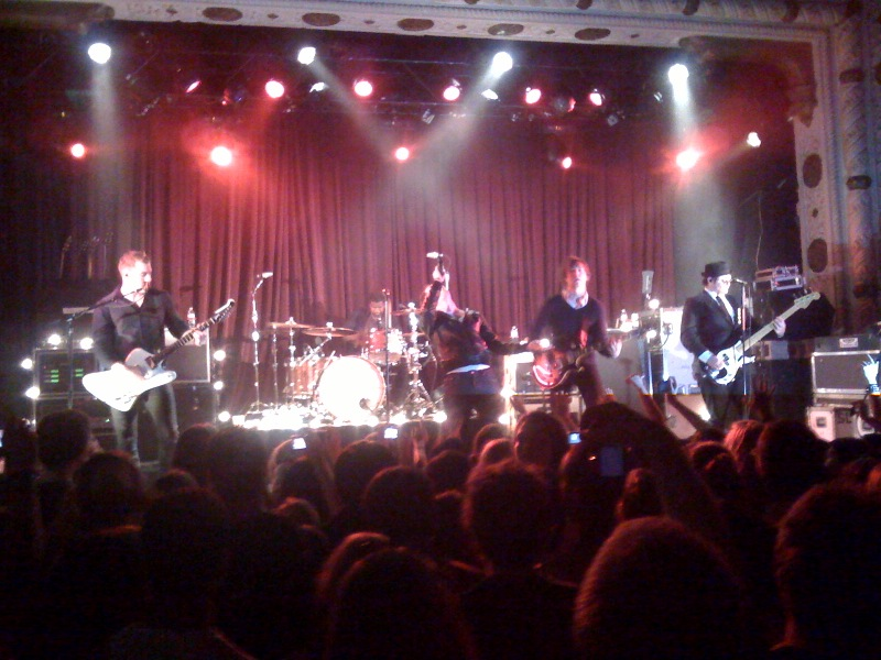 Plain White T's playing @ The Metro